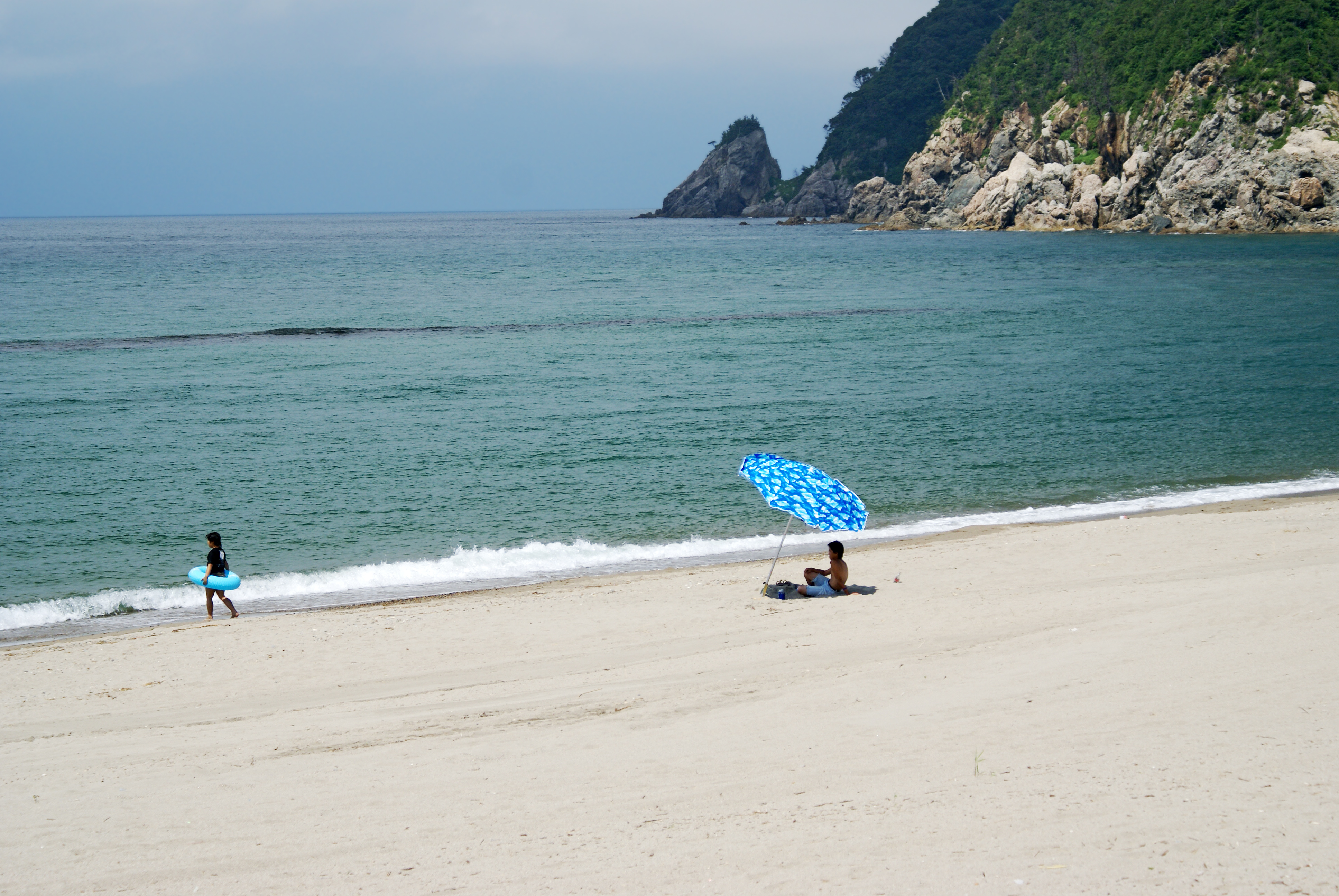 Hamasaka Kenmin Sun-beach in Shinonsen, Hyogo prefecture, Japan